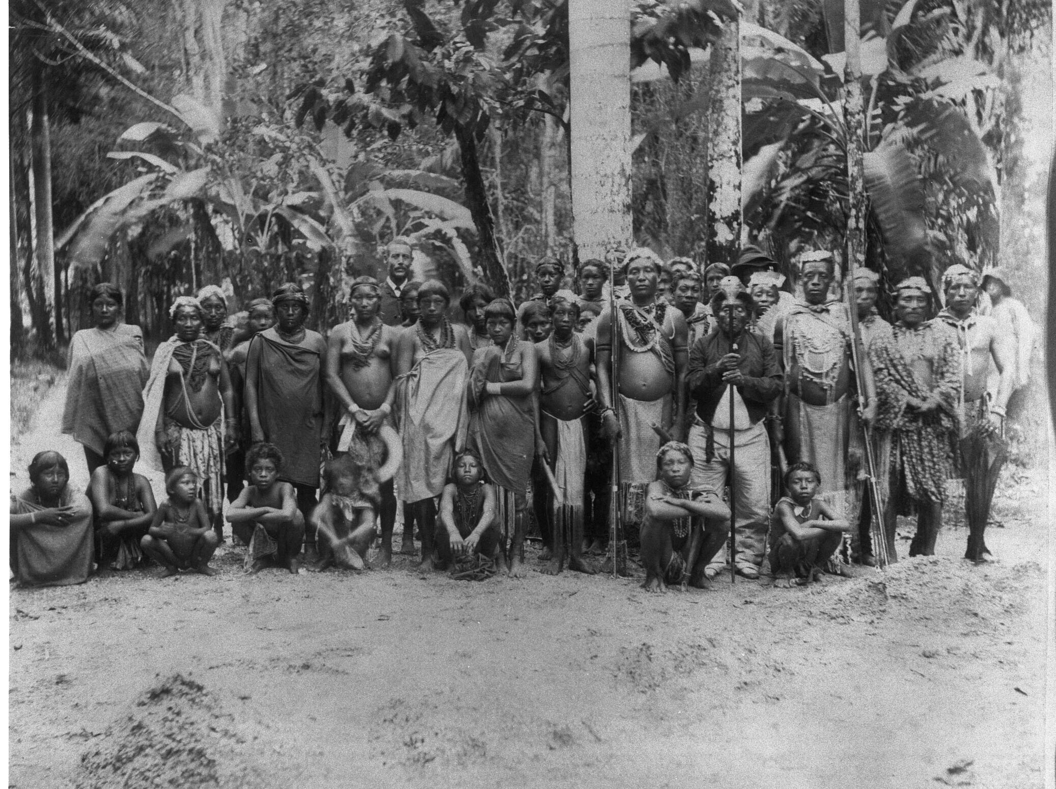 Group of Arawak people in ceremonial outfit in the Garden of Palms next to the Dutch Governor house in Paramaribo, Suriname.